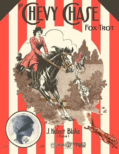 The Chevy Chase, 1914